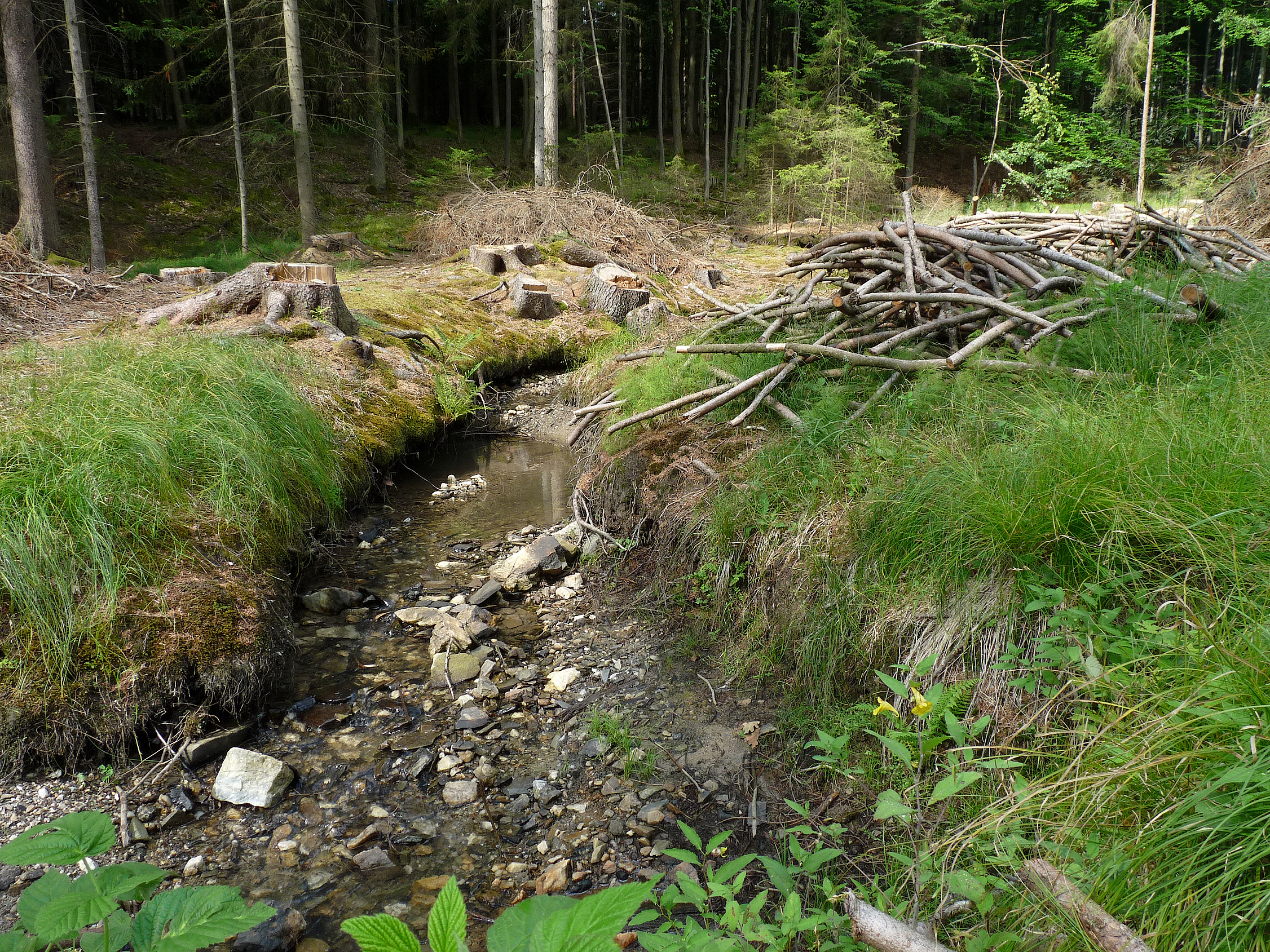 Ostrolovský Újezd, a natural monument near the village of Ostrolovský Újezd, České Budějovice District, Czech Republic. Česky: Přírodní památka Ostrolovský Újezd nedaleko obce Ostrolovský Újezd v okrese České Budějovice.